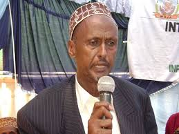 Ahmed Sheikh Ali Ahmed (Burale)